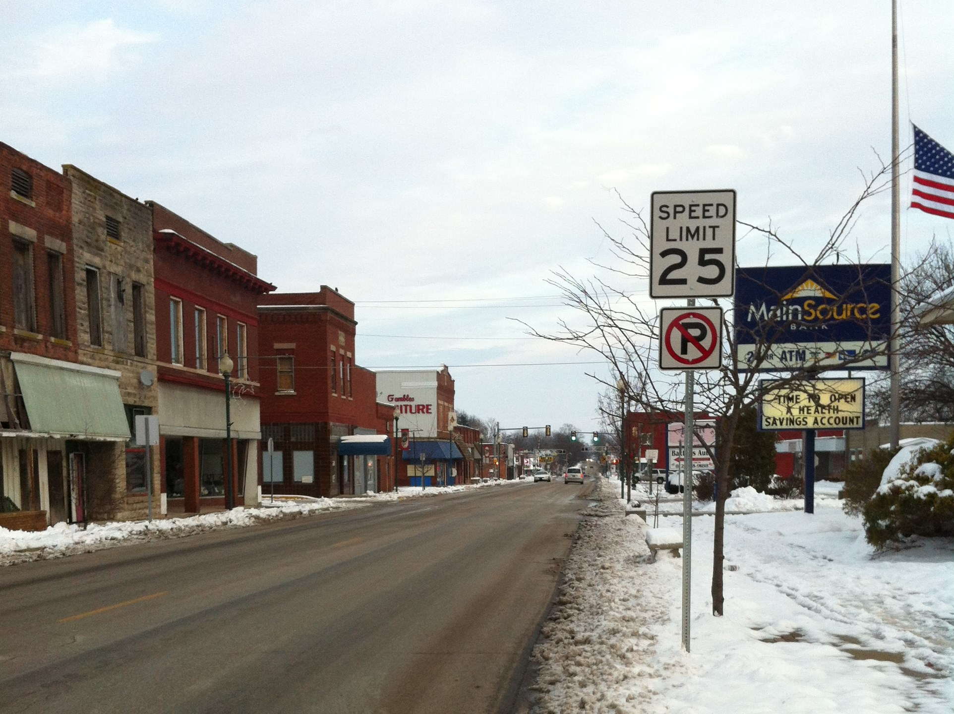 USA - Indiana - Greene County - Jasonville: mainstreet